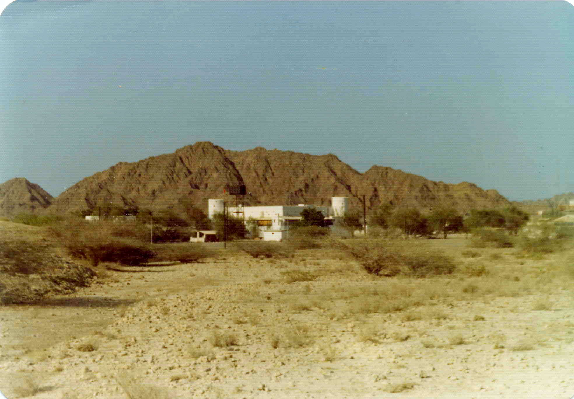 Headquarters Sultan's Armed Forces, Beit Al Falaj, in the Wadi Ruwi